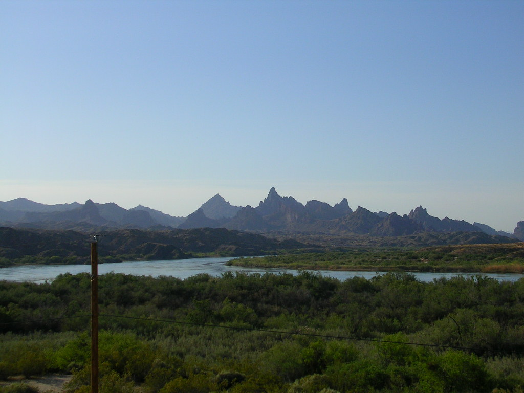 View of Colorado River from Topock, Arizona, looking downstream towards the Needles Peak Mountains in the Topock Gorge